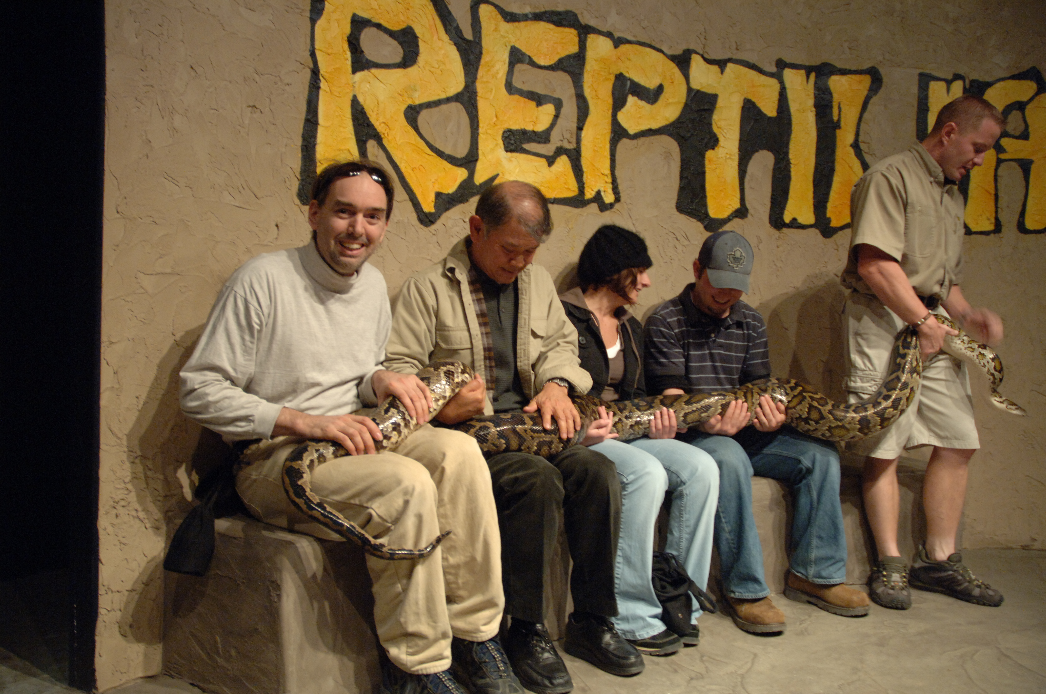 Audience members are invited to examine live reptiles up close. The instructor asked for volunteers from the audience to assist in handling a Burmese python that was long. For full resolution version and others from this series of pictures